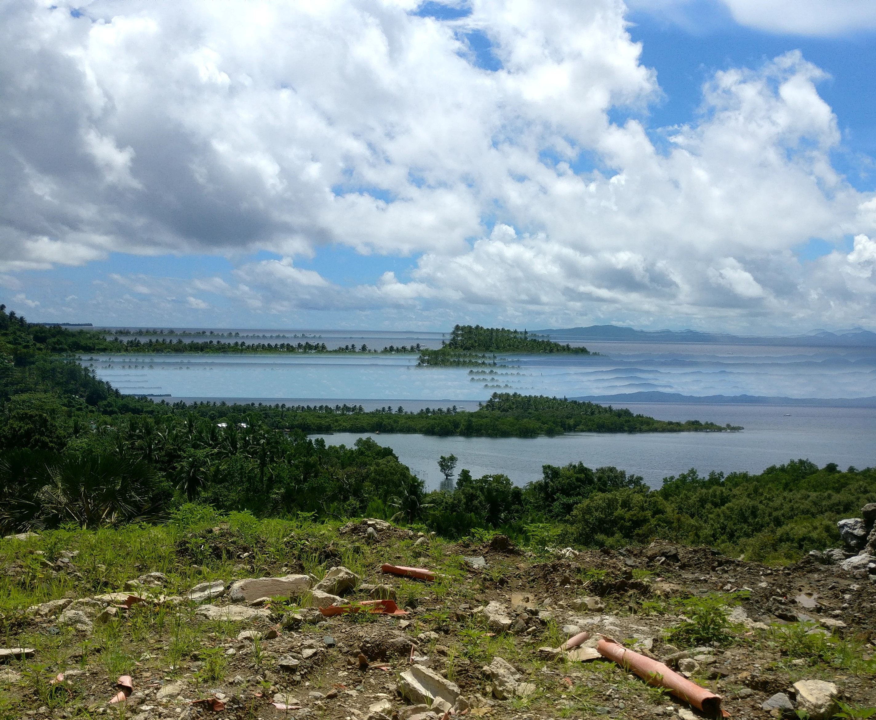 Mauban, Philippines